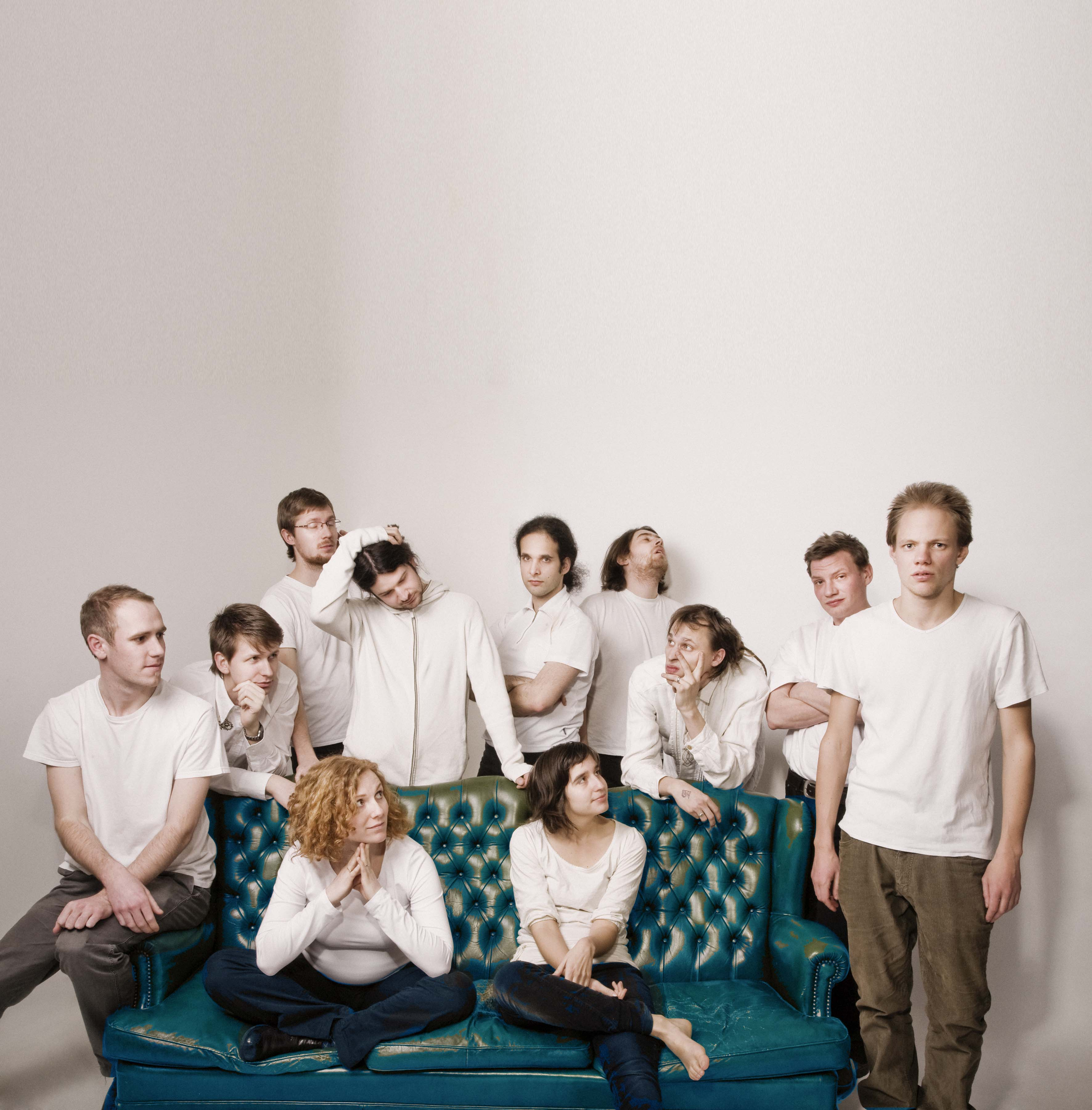 wrgha POWU orchestra – photo from CD kapiloongo, booklet